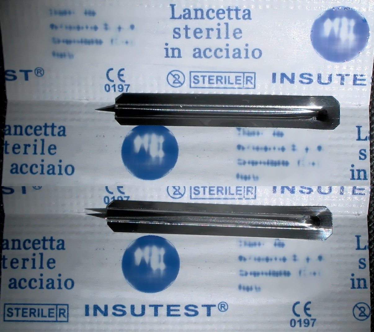 sterile lancets steel